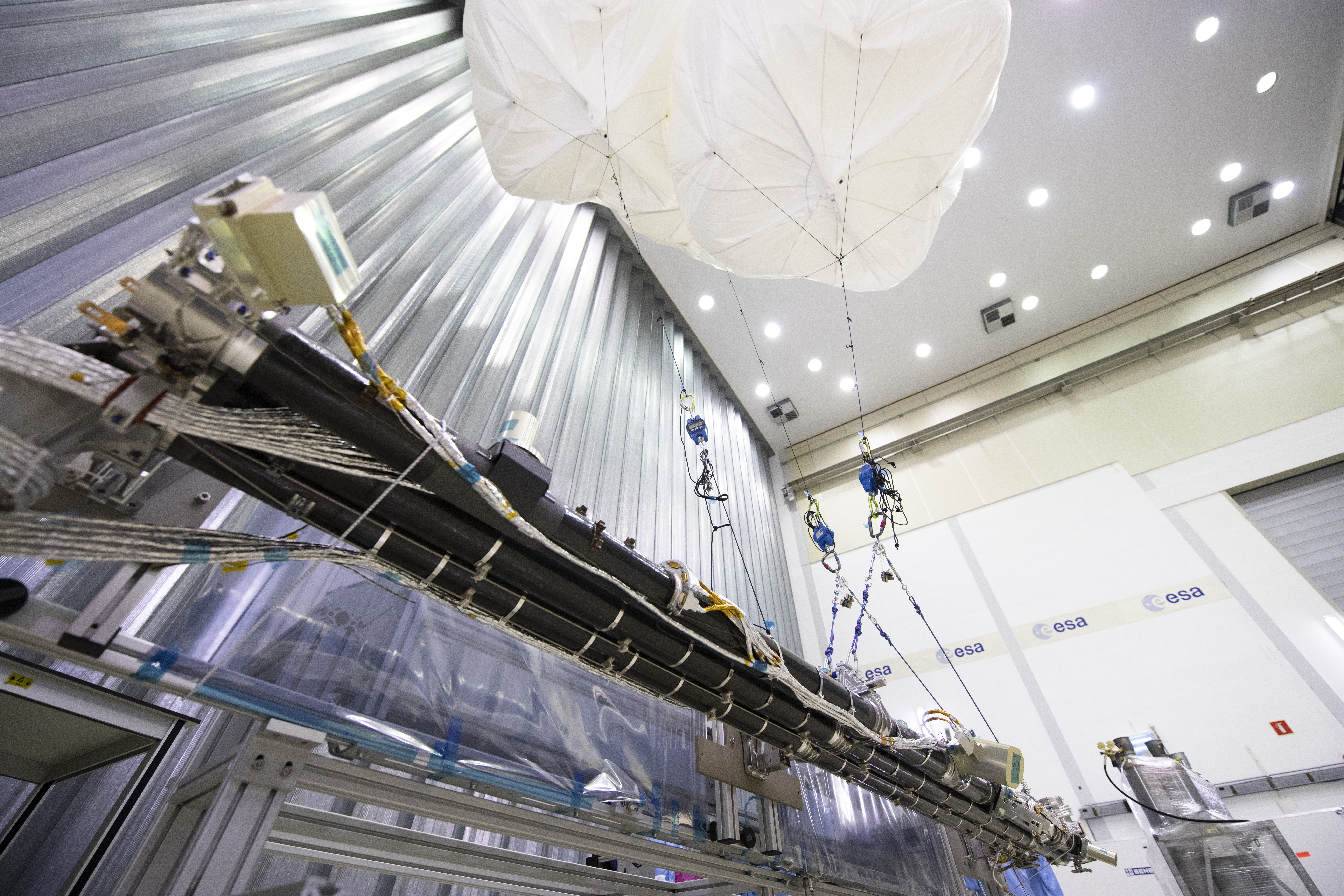 A test version of the 10.5-m long magnetometer boom built for ESA’s mission to Jupiter, developed by SENER in Spain, seen being tested at ESA’s Test Centre in the Netherlands, its weight borne by balloons. The flight model will be mounted on the Juice spacecraft –Jupiter Icy Moons Explorer– due to launch in 2022, arriving at Jupiter in 2029. The mission will spend at least three years making detailed observations of the giant gaseous planet Jupiter and three of its largest moons: Ganymede, Callisto and Europa. The Juice spacecraft will carry the most powerful remote sensing, geophysical, and in situ payload complement ever flown to the outer Solar System. Its payload consists of 10 state-of-the-art instruments. This includes a magnetometer instrument that the boom will project clear of the main body of the spacecraft, allowing it to make measurements clear of any magnetic interference. Its goal is to measure Jupiter’s magnetic field, its interaction with the internal magnetic field of Ganymede, and to study subsurface oceans of the icy moons. The deployment of this qualification model boom has been performed before and after simulated launch vibration on Test Centre shaker tables to ensure it will deploy correctly in space. Since the boom will deploy in weightlessness, three helium balloons were used to help bear its weight in terrestrial gravity.